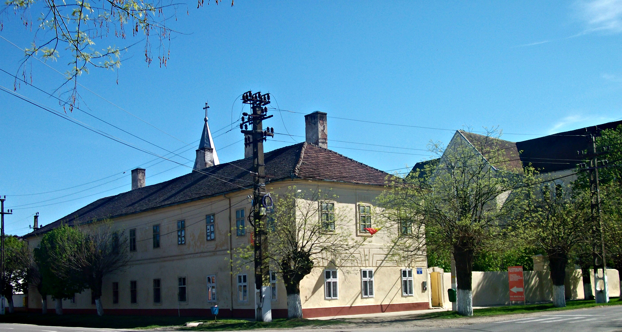 Urbarialhaus (Casa urbarială)